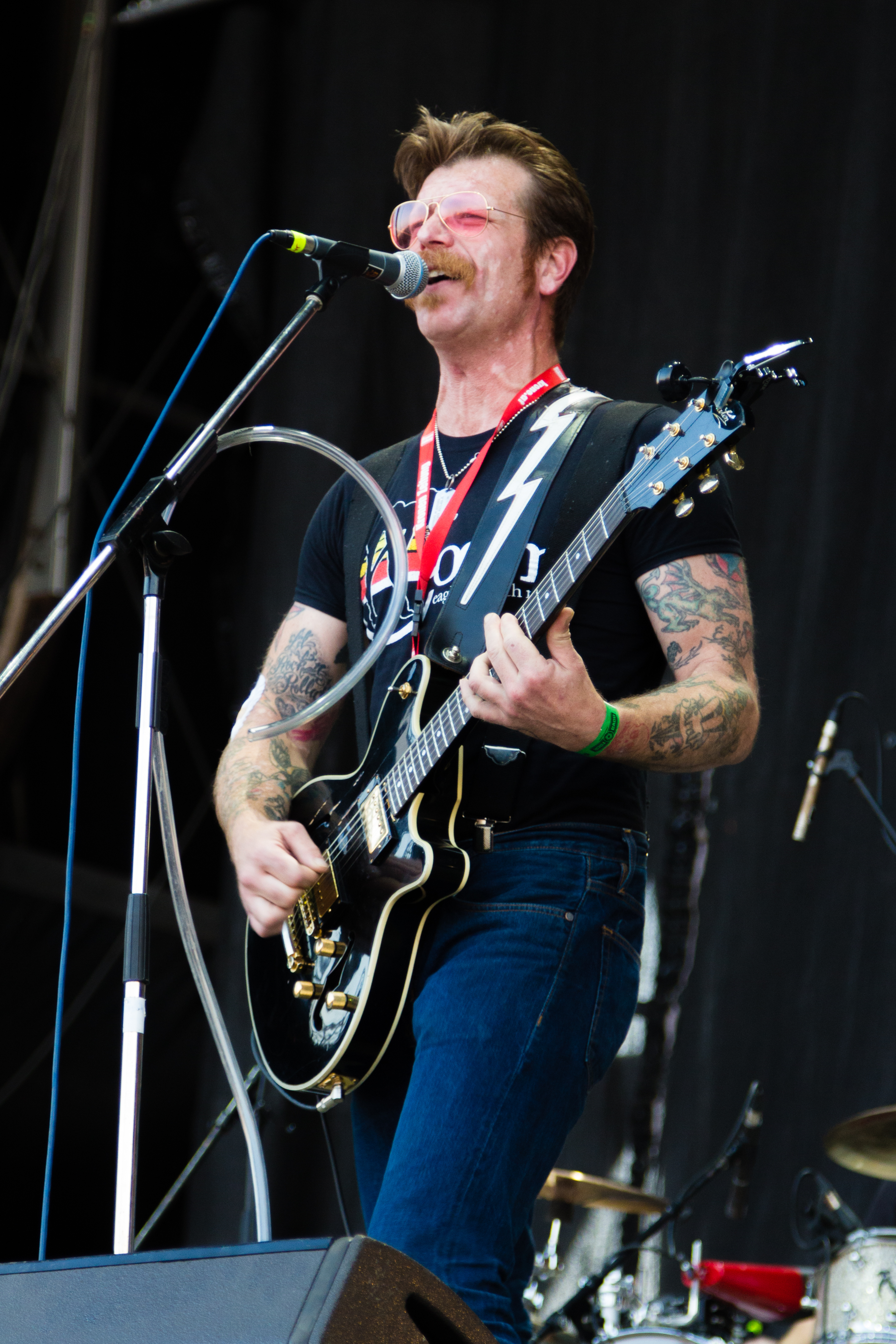 Jesse Hughes from the Eagles of Death Metal at the Nova Rock 2015